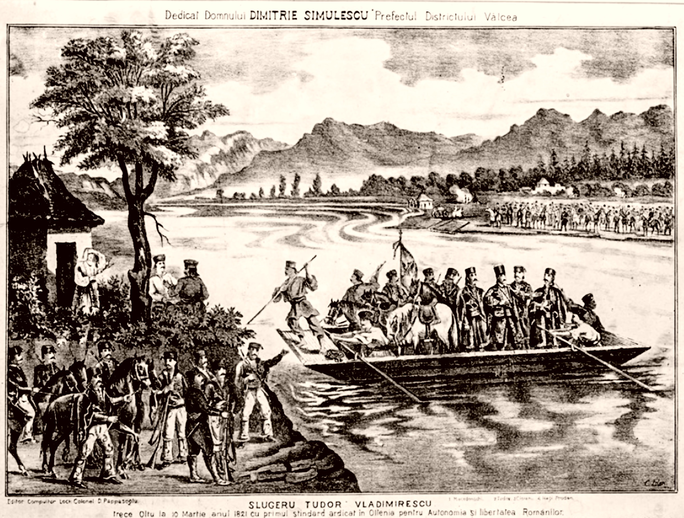 Oastea lui Tudor trecând Oltul ("The Army of Tudor [Vladimirescu] Crossing the Olt [at Slatina]"), lithograph of a historical event dated to March 10, 1821. Arhivele Olteniei, Issues 45–46/1929, p. 442, notes that the four men standing at the front of the barge are, from the left: Dimitrie Macedonski, Vladimirescu, Mihai Cioranu, and Hadži-Prodan.